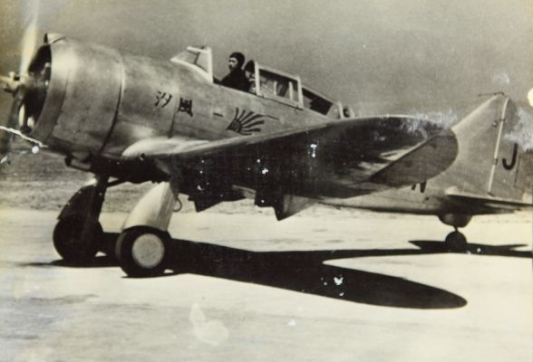 A8V1 (Seversky 2PA) for the newspaper «Asahi Shimbun»